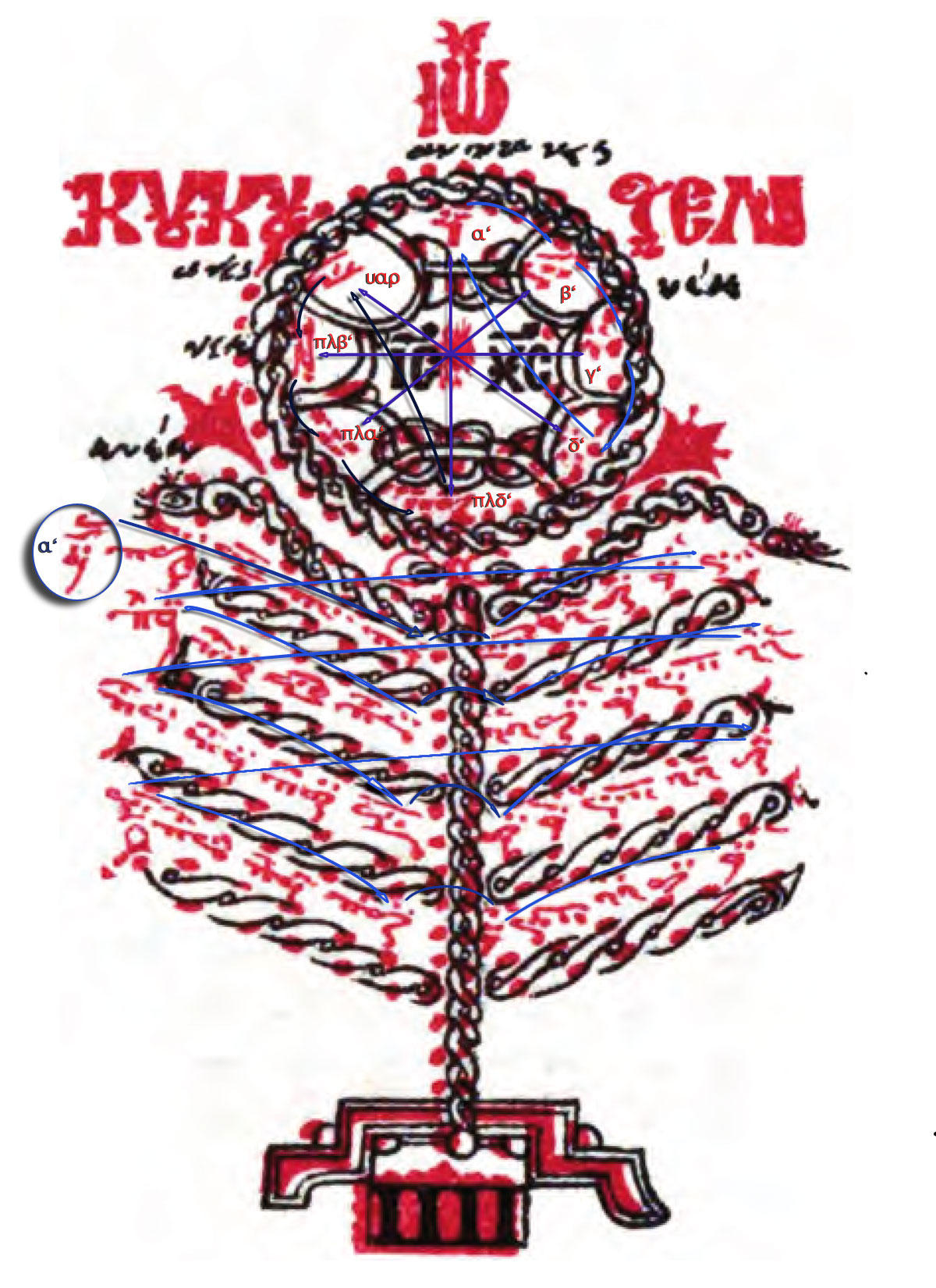 Koukouzelian tree - a memorial landscape for pitch classes (phthongoi) used in treatise (Papadike) about Byzantine Chant